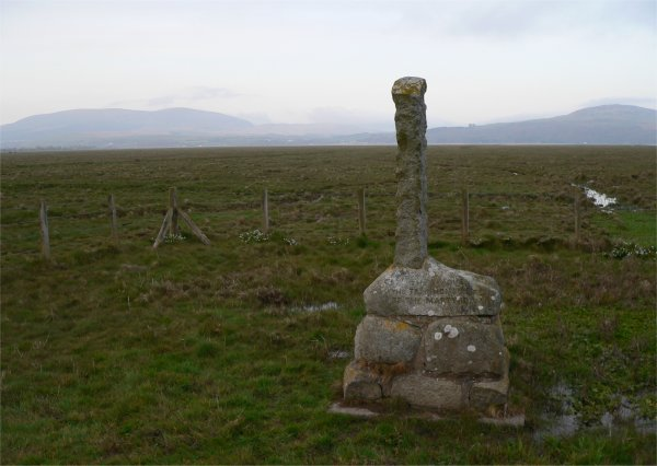 A stake in Wigtown (Scotland) as a memorial on the place were two Covenanters were executed in 1685